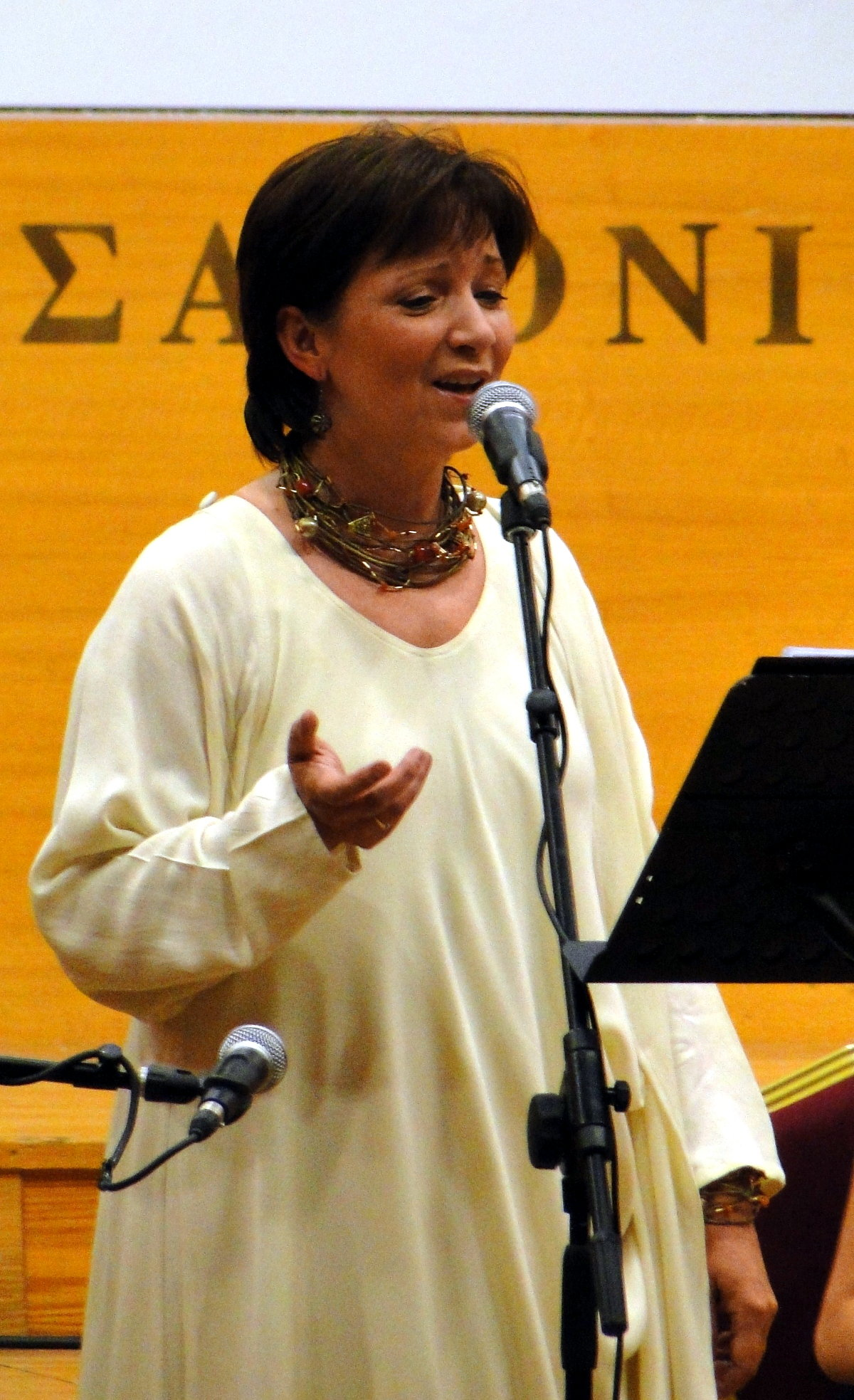 Hungarian folk singer Márta Sebestyén.